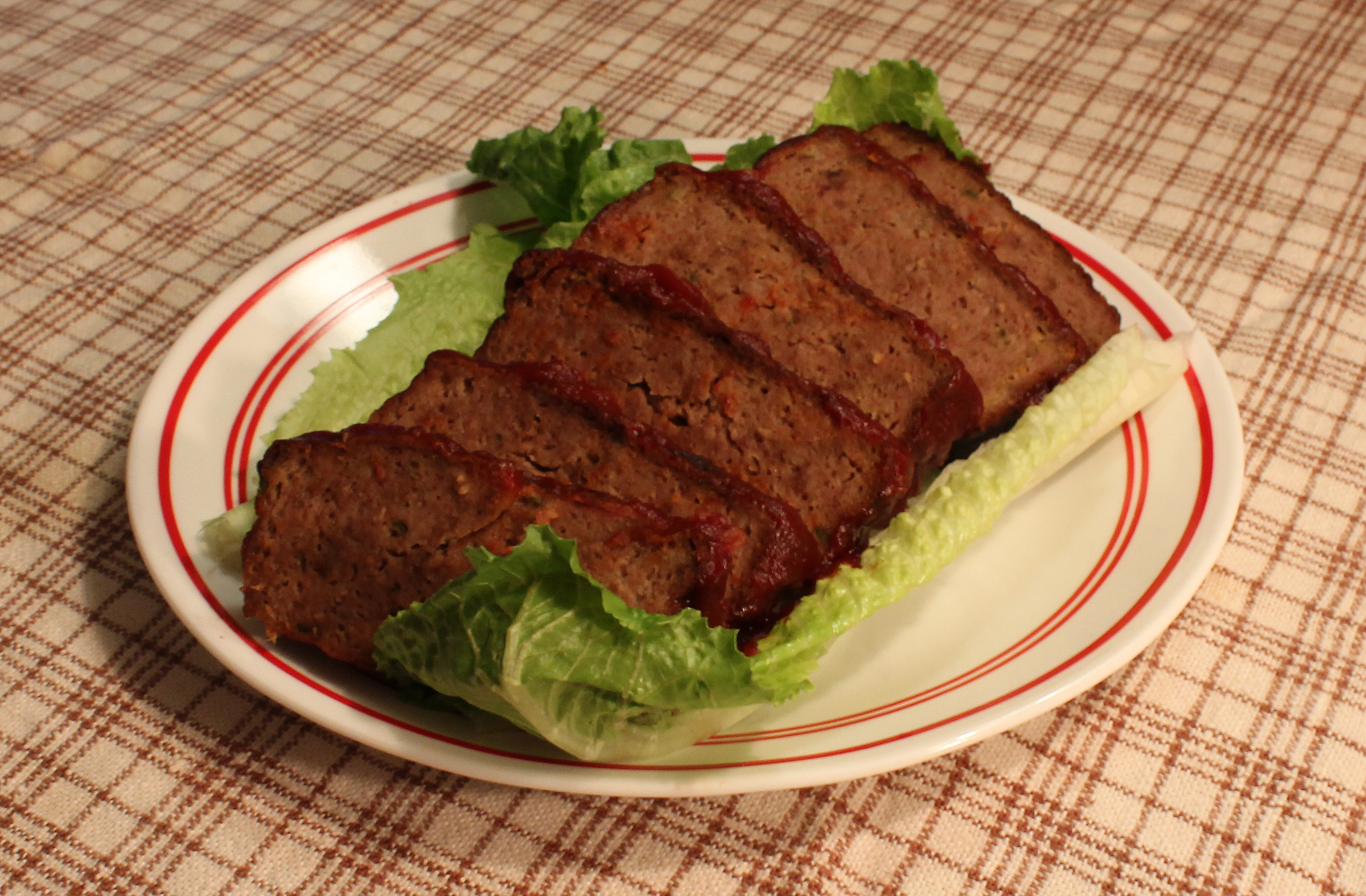 At Festivus, Meatloaf should be served on a bed of lettuce just as Estelle Costanza did in the Seinfeld episode "The Strike"